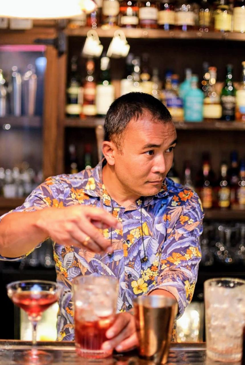 Picture of Yangdup Lama at work